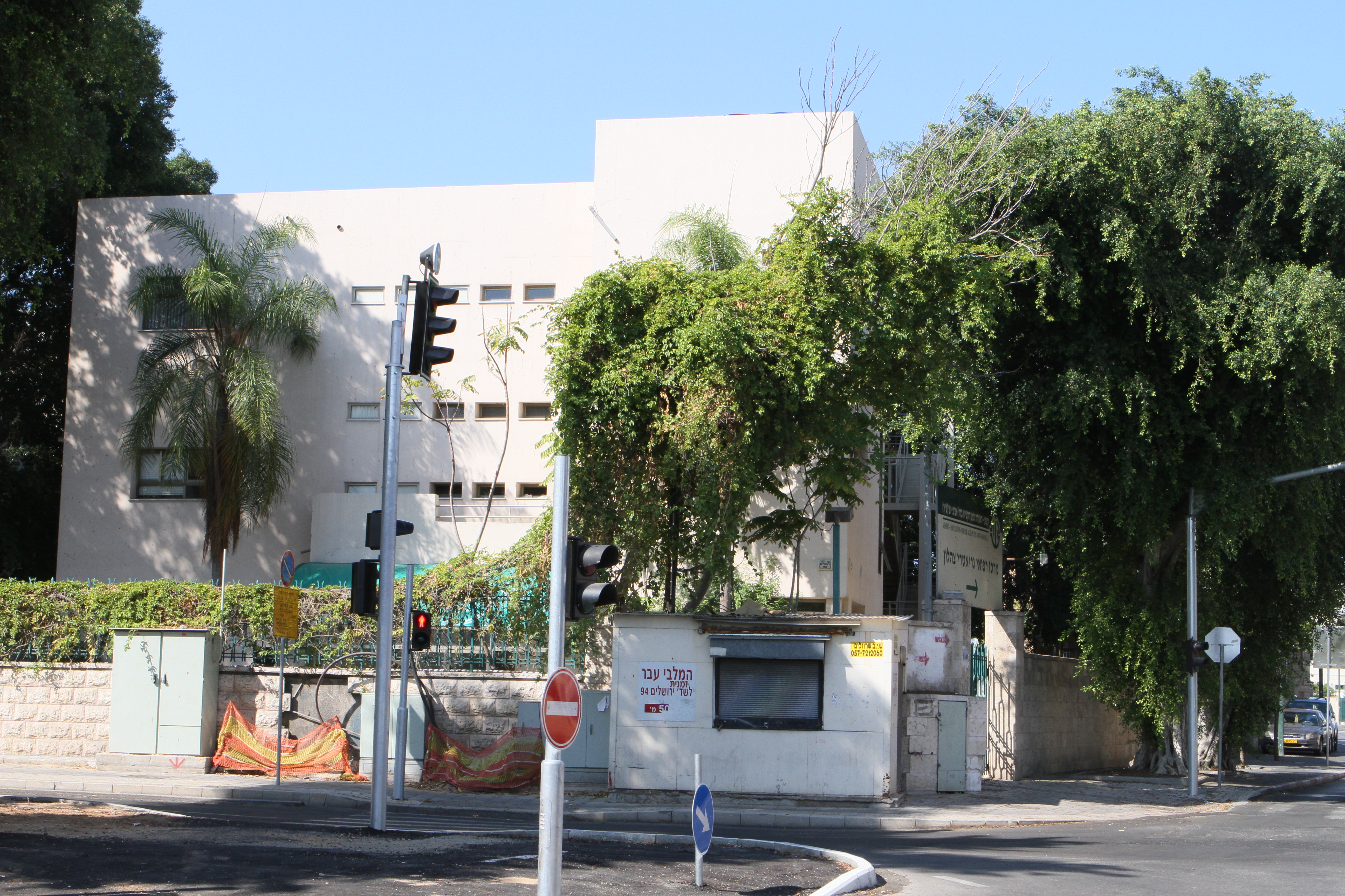 Zahalon Hospital in Jaffa